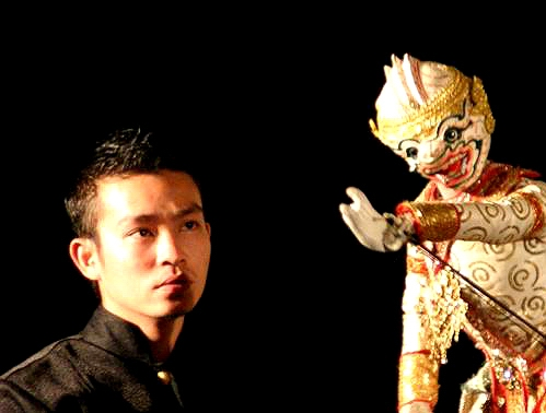 Thai Muppet Show : Joe Louise's